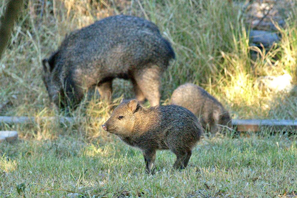 Juvenile Collared Peccary (Javelina) [Tayassu tajacu] with sibling and mother in background. Photo taken 2008-10-14 near Glenwood, NM, USA